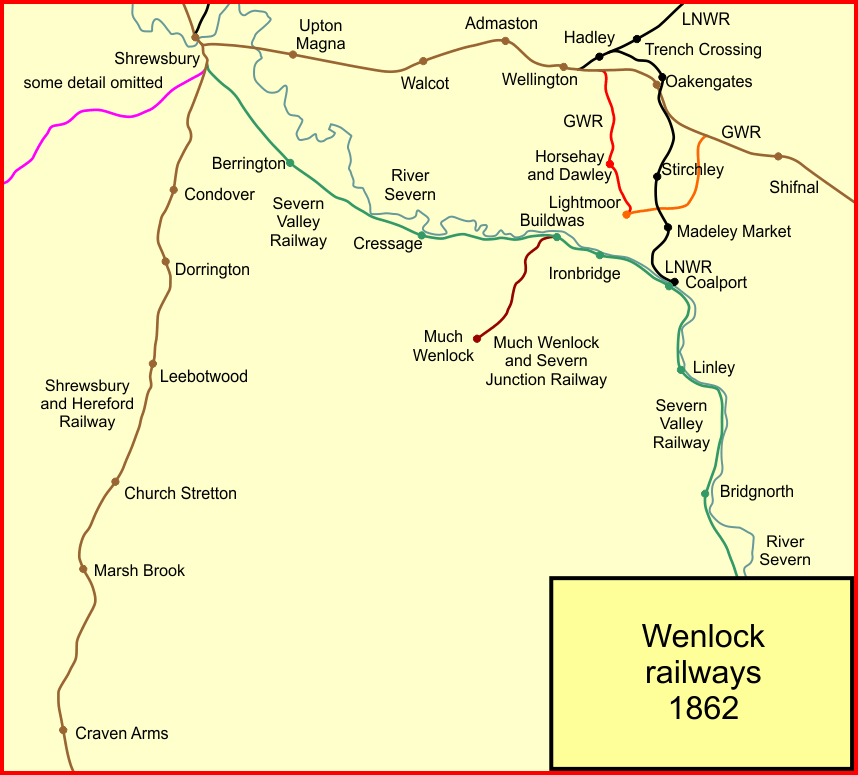 System map of the Much Wenlock and Severn Junction Railway in 1862. Showing the development of railways around Coalbrookdale, Shropshire, England